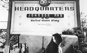 Enterance Sign at Johnson Army Air Base, Japan, 1946